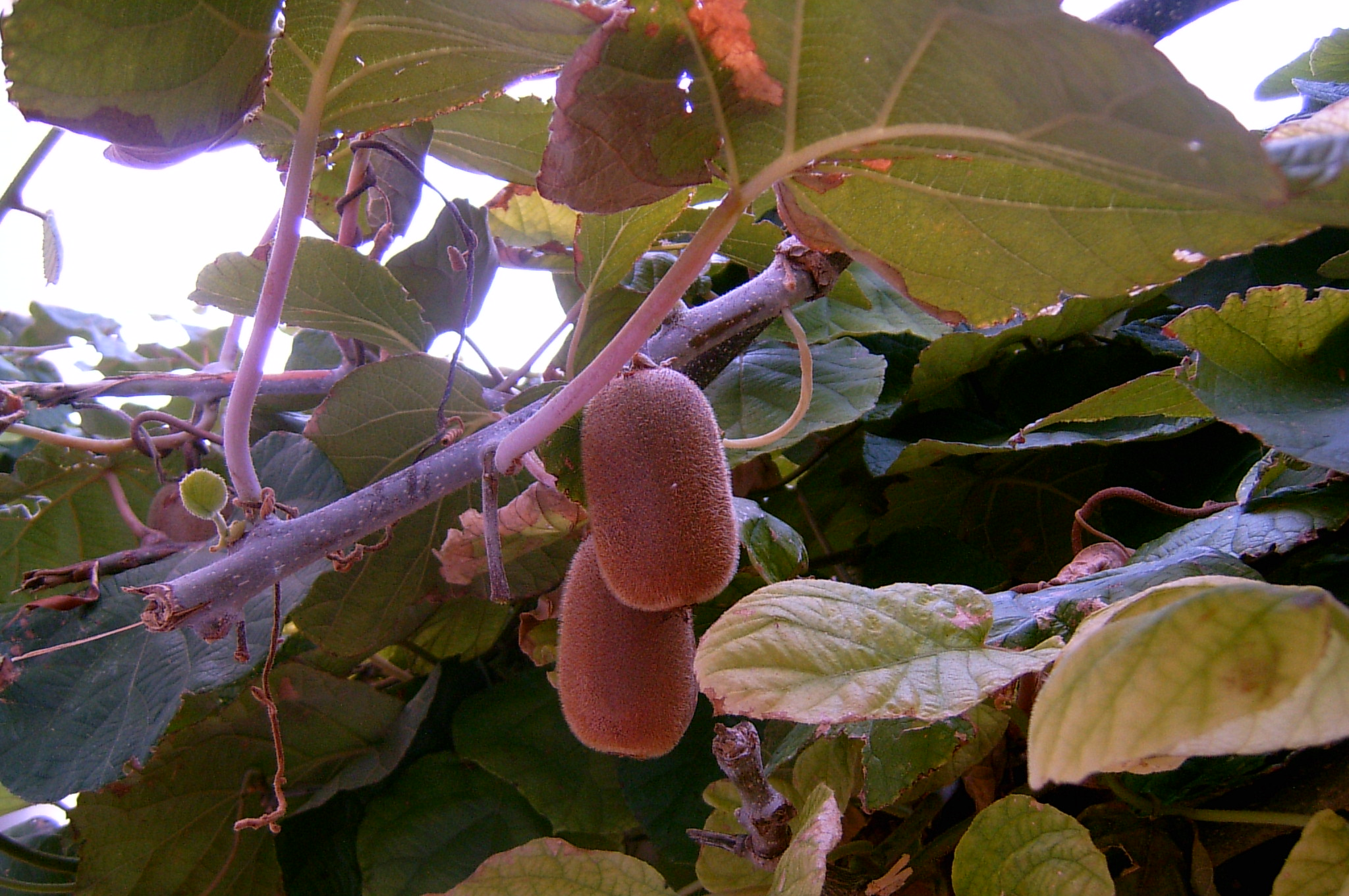 Kiwi fruit on vine